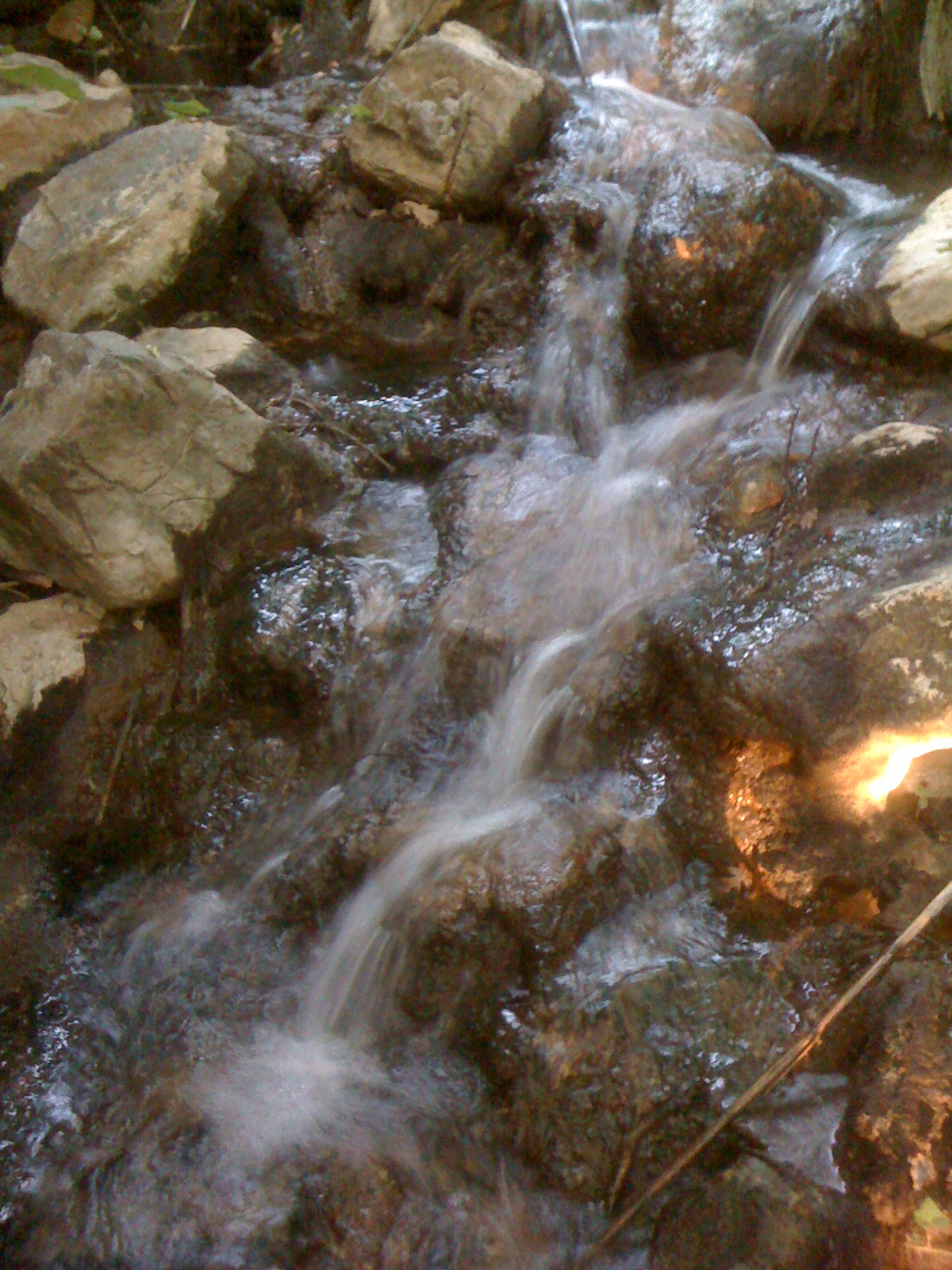 Sasso Pisano